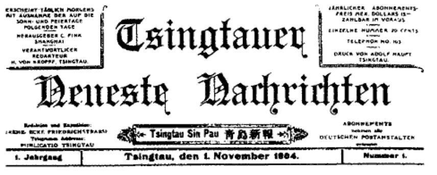 Tsingtauer Neueste Nachrichten (Tsingtau Sin Pau, T: 青島新報, S: 青岛新报, P: Qīng​dǎo Xīnbào), 1 November 1904.